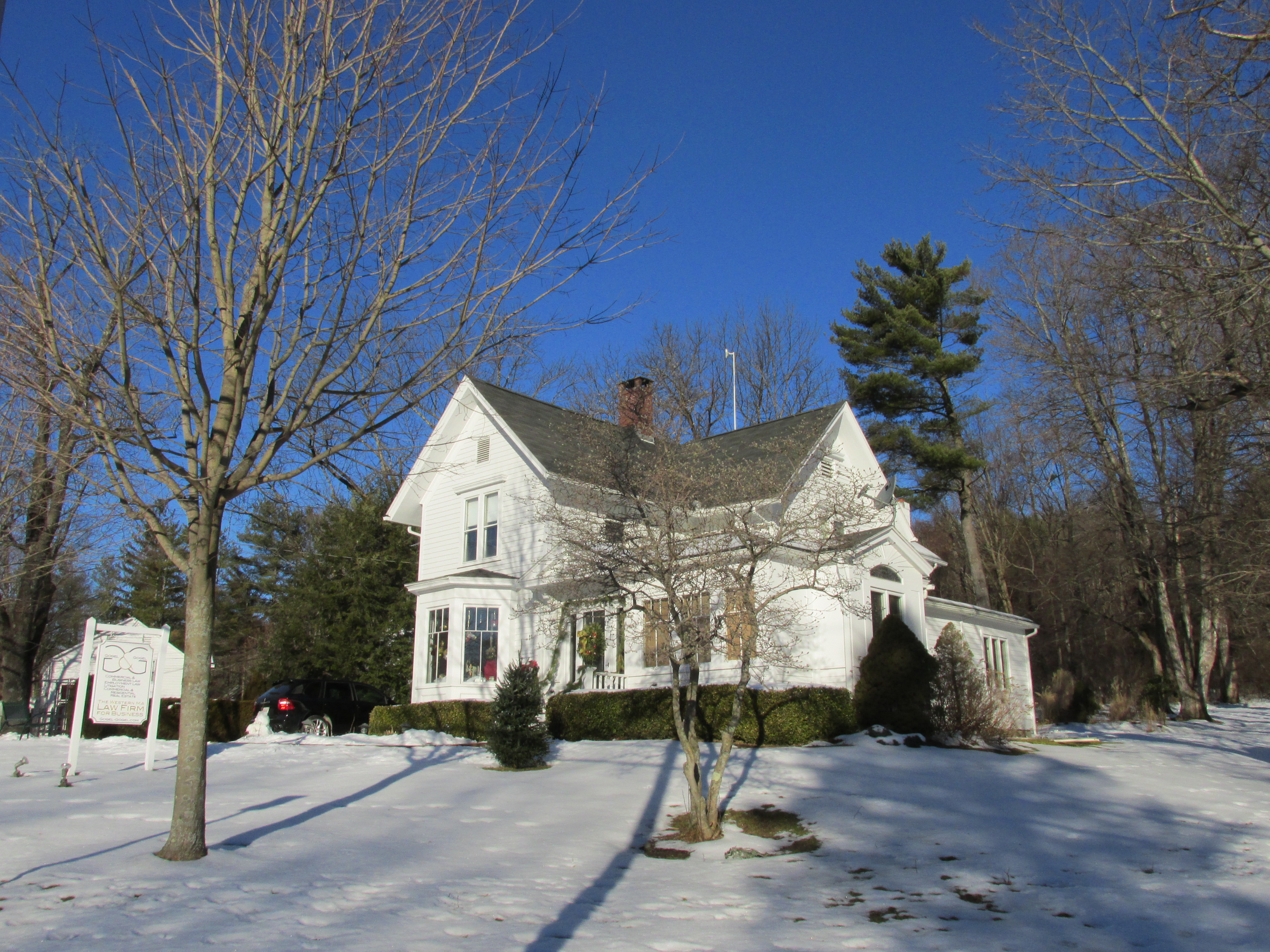 John O'Neil House, c 1880, South Egremont Massachusetts - 40 Main Street